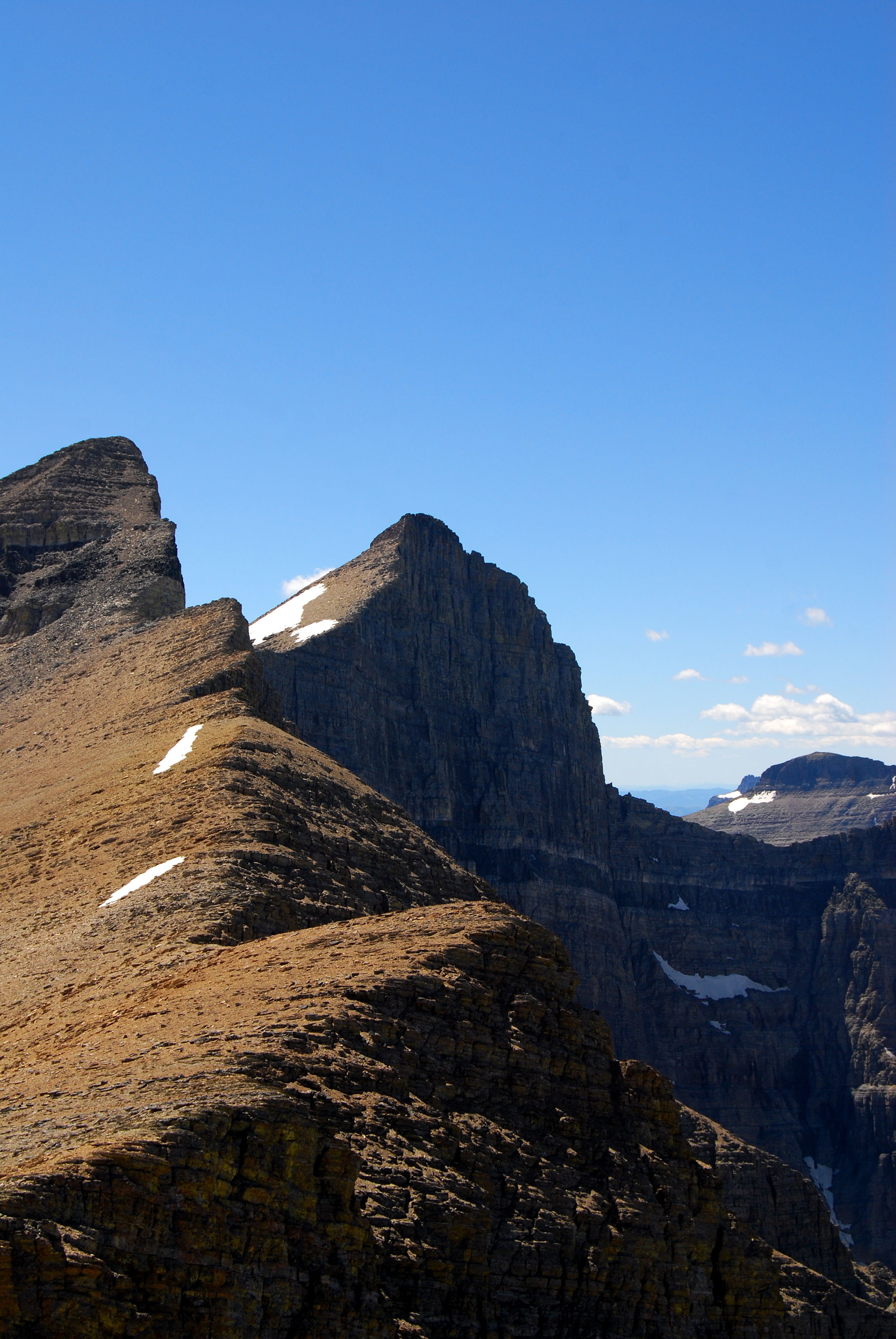 Cracker Peak (9,833 ft.) and Mount Siyeh (10,014 ft.) as viewed from the "Skyline Experience"